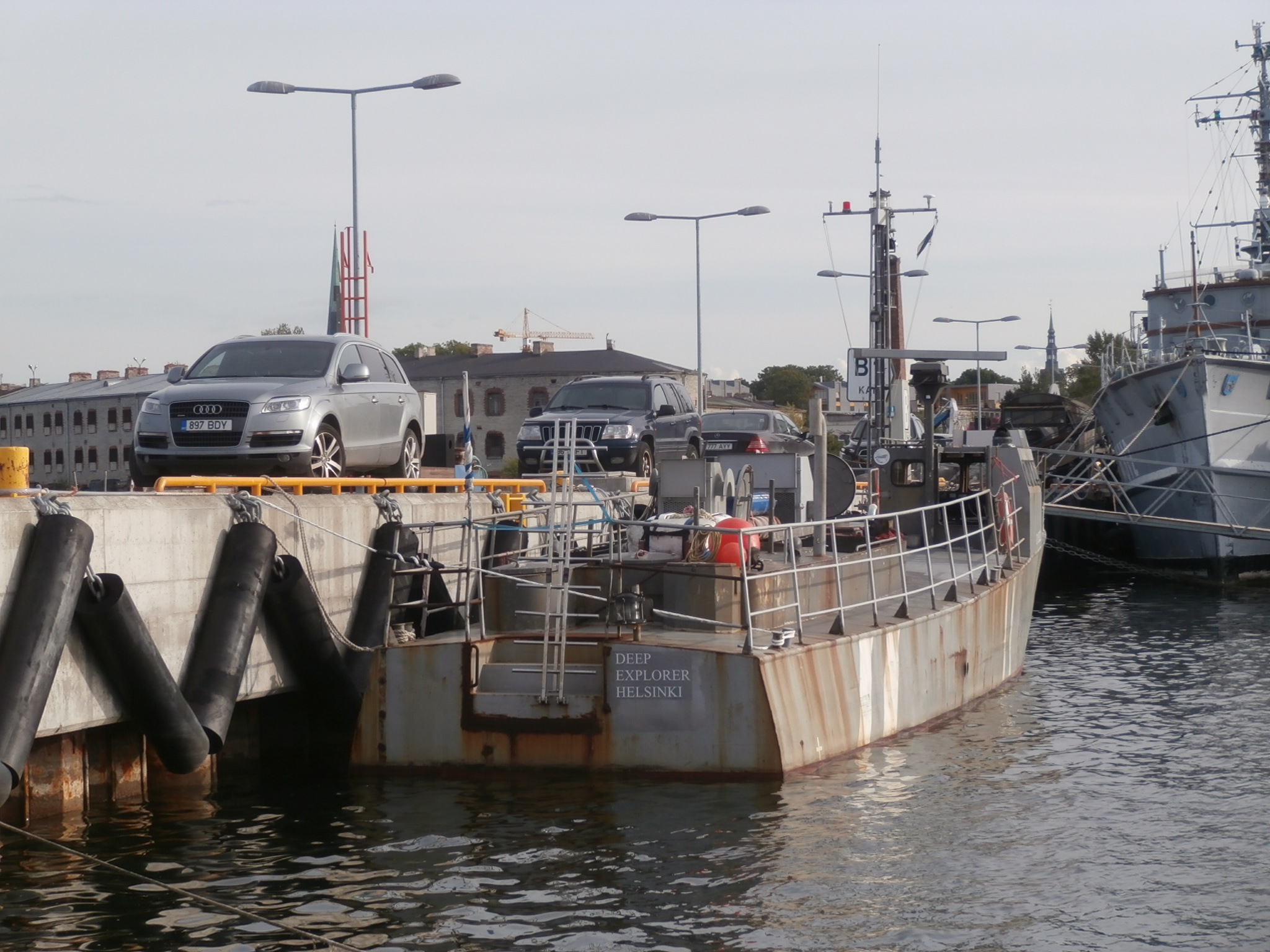 Deep Explorer at quay B in Lennusadam Tallinn 31 August 2015